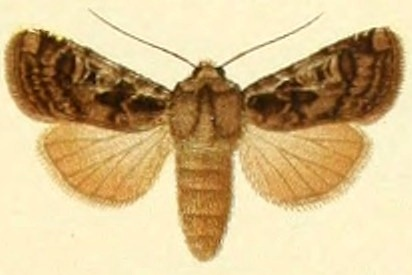 Image from Plate 7 of Die Gross-Schmetterlinge der Erde (The Macrolepidoptera of the World) Vol. 3